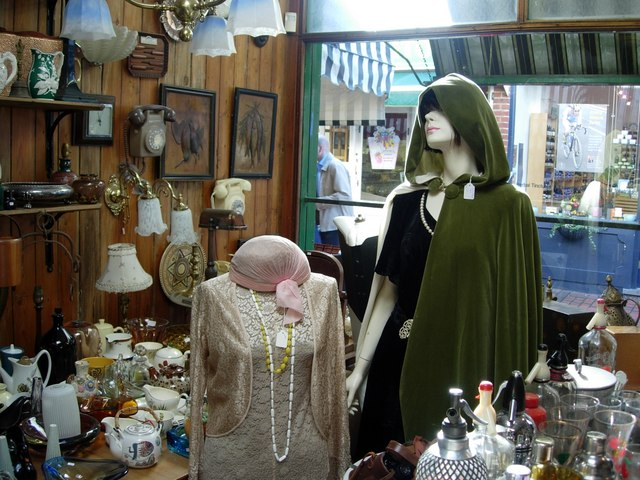 The Lanes, Brighton. Antiques shop. This antiques and bric-a-brac shop is typical of what can be found in The Lanes, along with clothes shops, music shops and pubs. This view across the shop through the window shows the narrowness of the streets in this web of perpendicular streets and their special atmosphere.